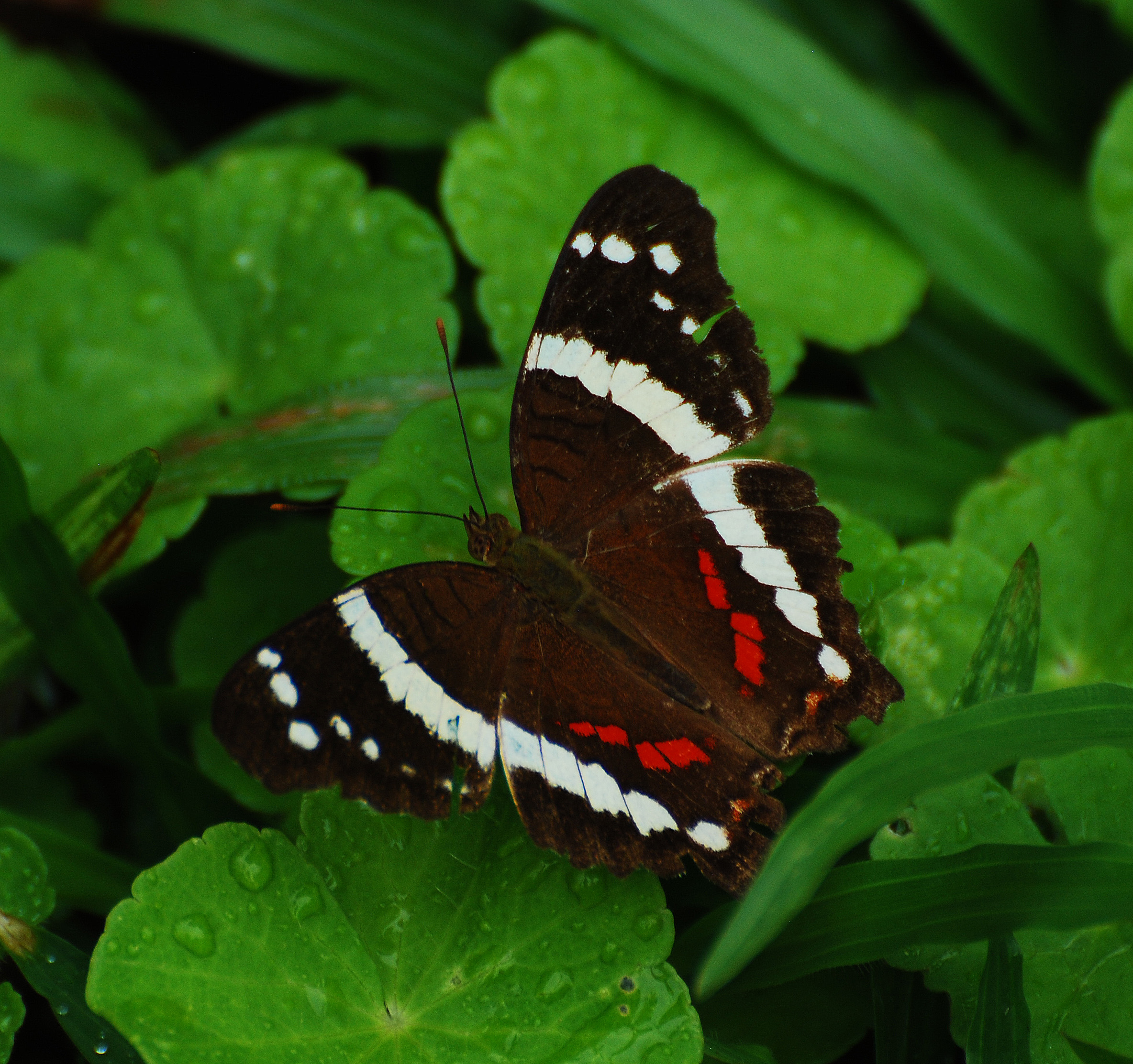 Banded Peacock at Selva Verde Lodge, Costa Rica, 080225. Anartia fatima.